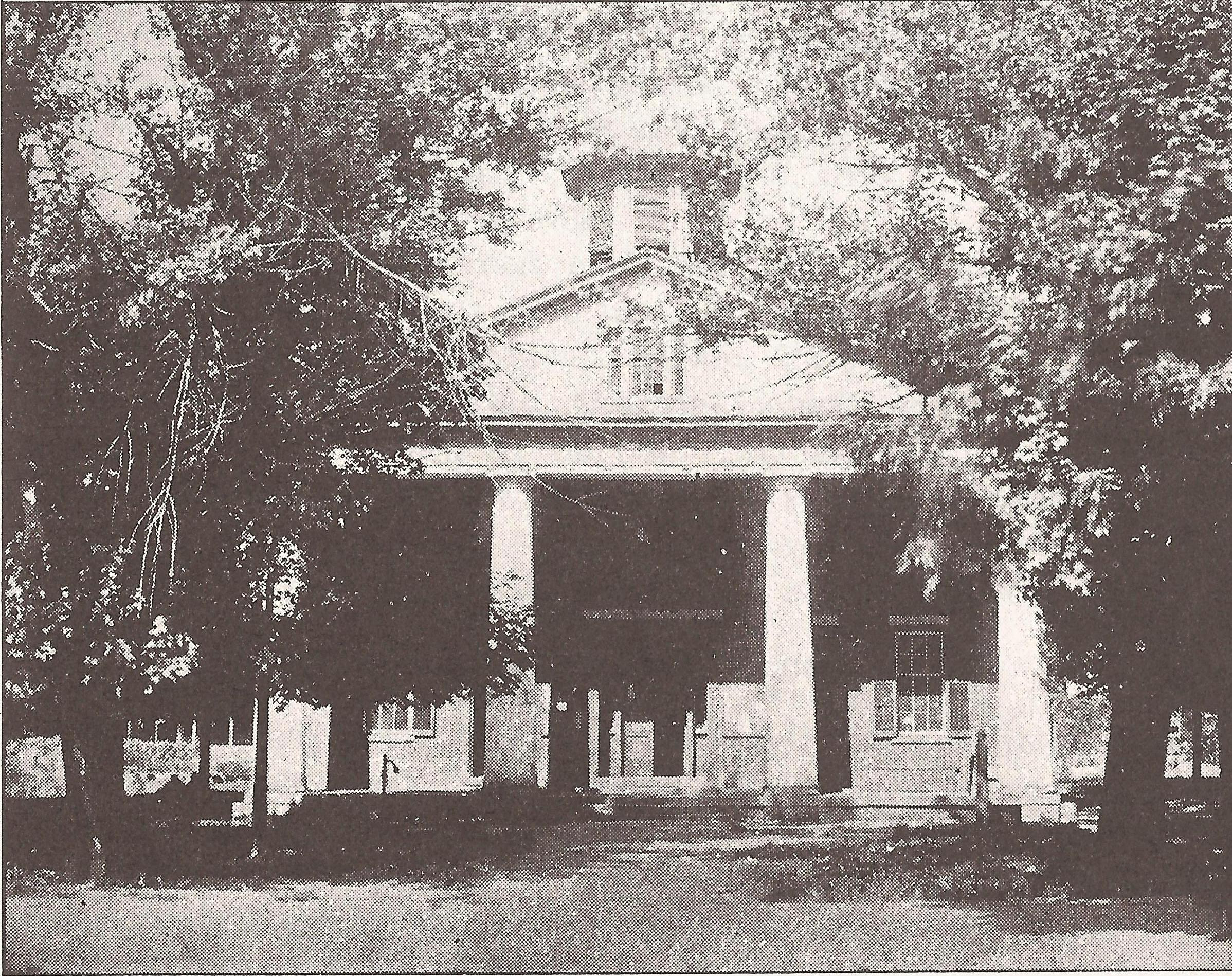 The Old Philippi Court House (Barbour County Courthouse, built 1844-46), Philippi, [West] Virginia, USA